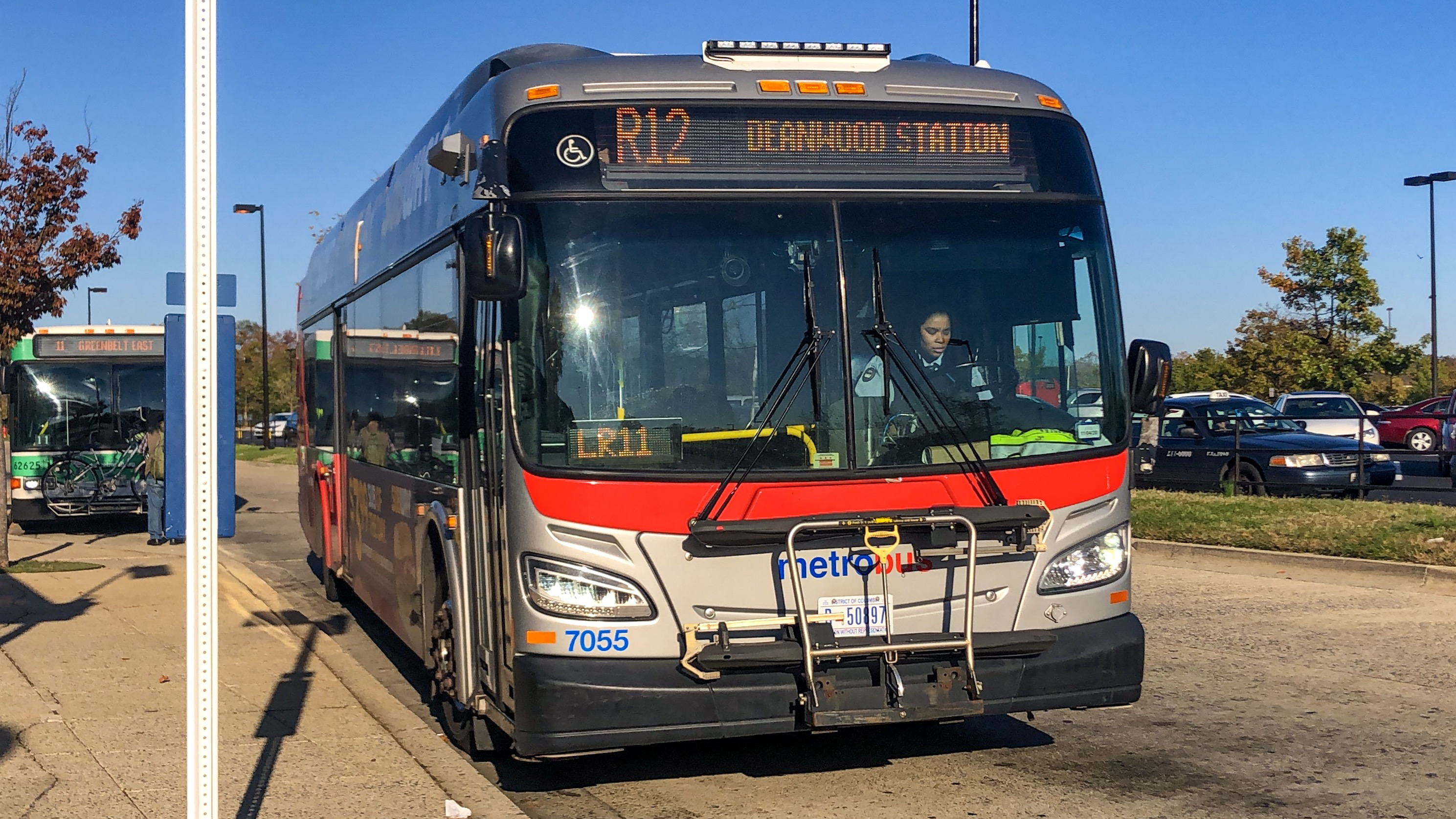 WMATA XDE40 7055 on R12 At Greentbelt station.